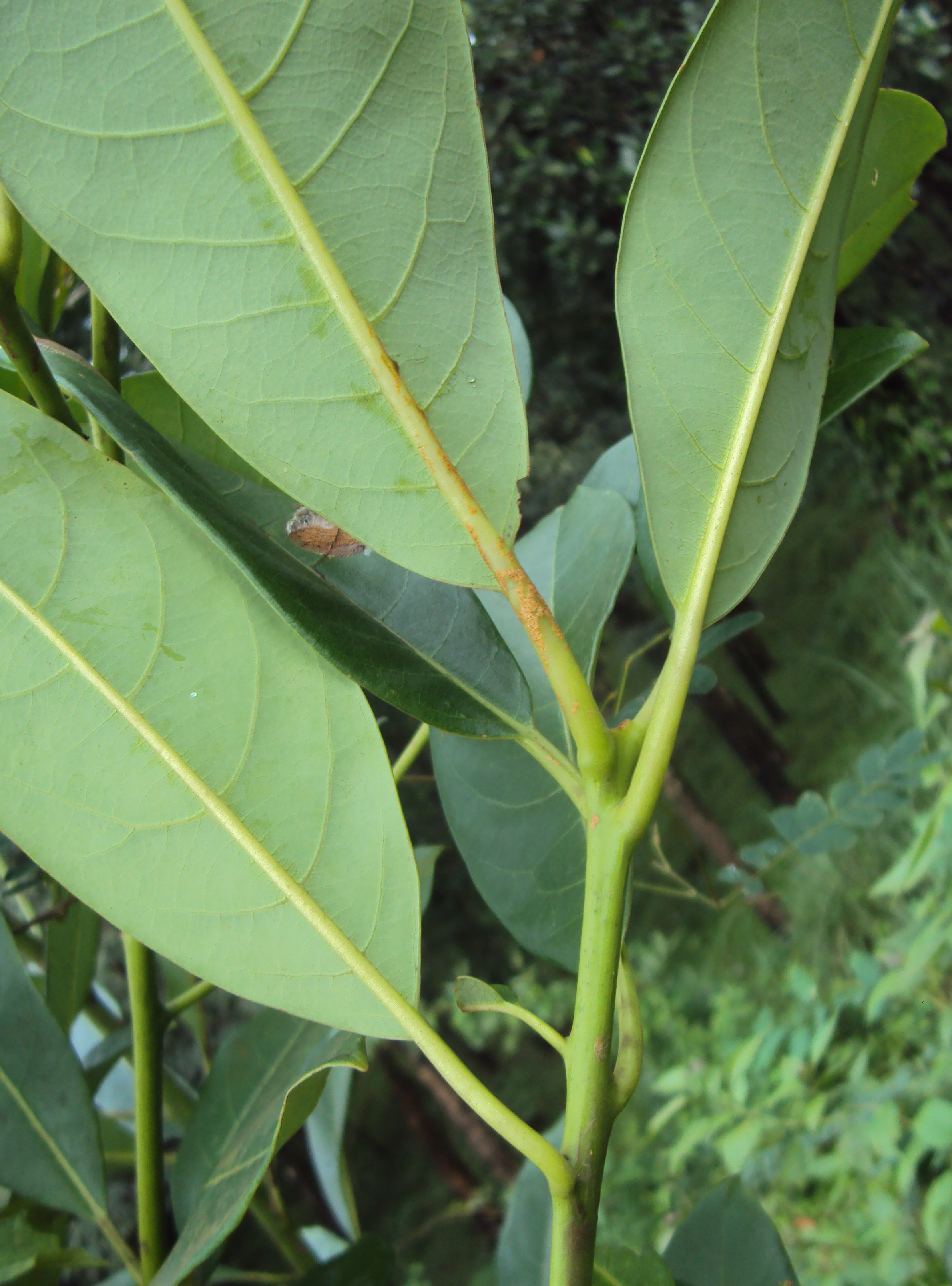 Persea macrantha - കുളമാവ്